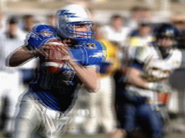 A simulated example of TV ghosting and the blurring/image smearing associated with it. Should be reasonably accurate as it is based on both past experience of ghosting and analysis of actual TV ghosting pictures from the Internet. Slight chroma noise was added to simulate a typical analog TV broadcast in a reasonably strong signal area.